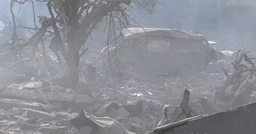 Wreckage of Hamas Governmental building in Gaza, after Israeli rocket strike. Part of Operation Pillar of Defense